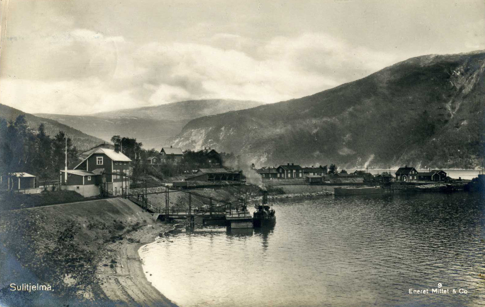 back of card